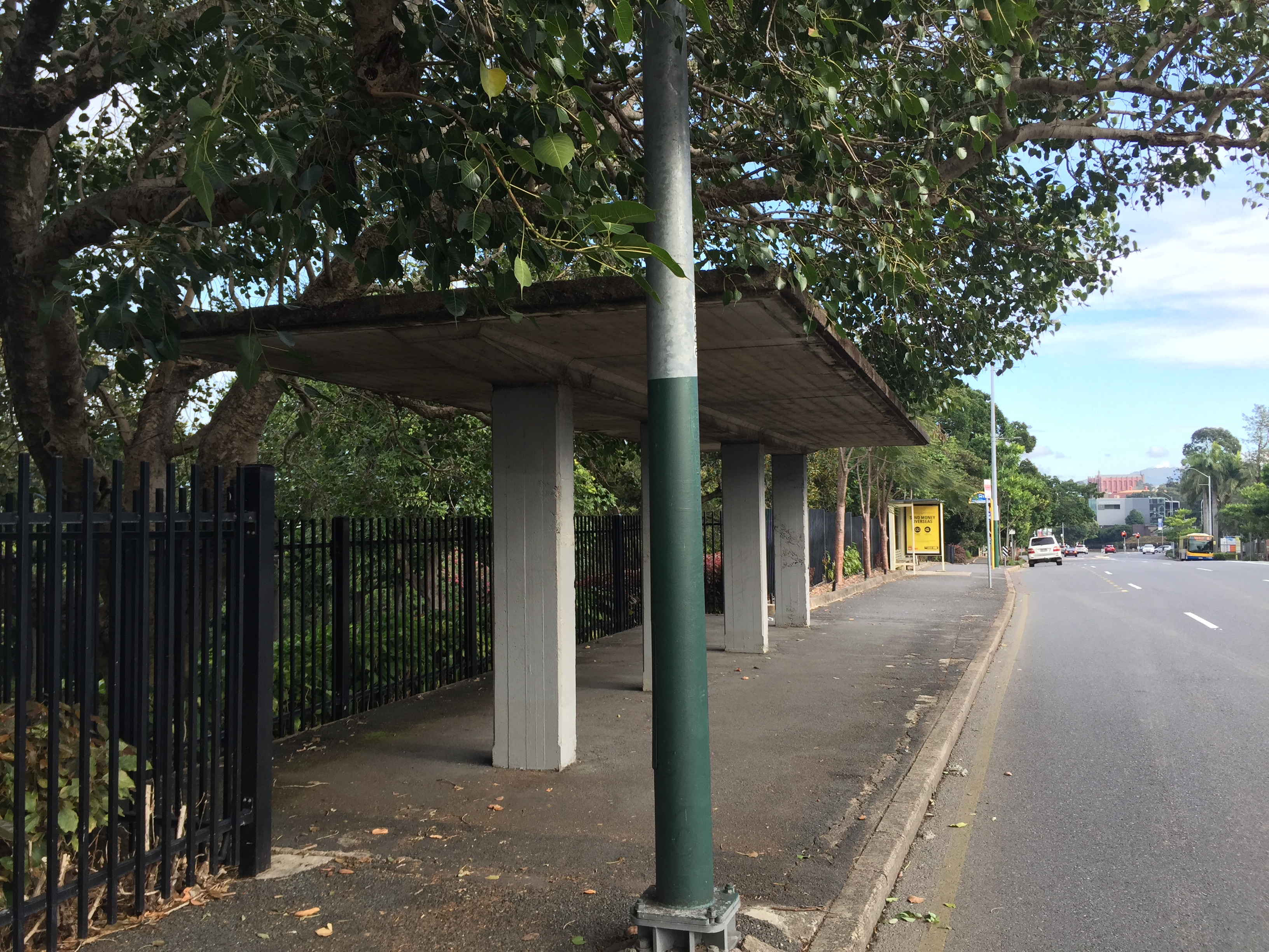 Albert Park (North) Air Raid Shelter at Wickham Terrace, Spring Hill, City of Brisbane, Queensland, Australia.